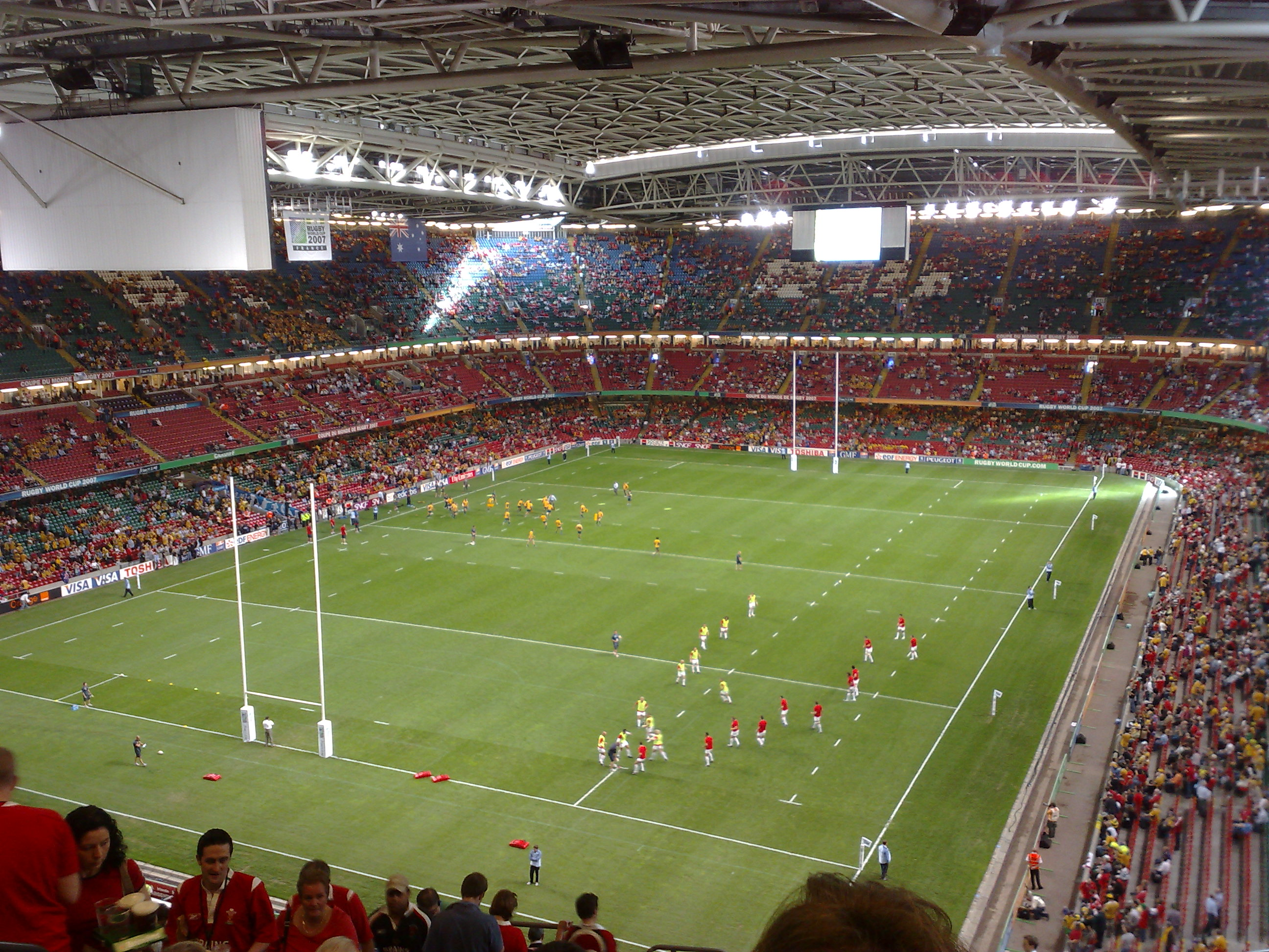 With the roof closed this is such an impressive stadium to experience.